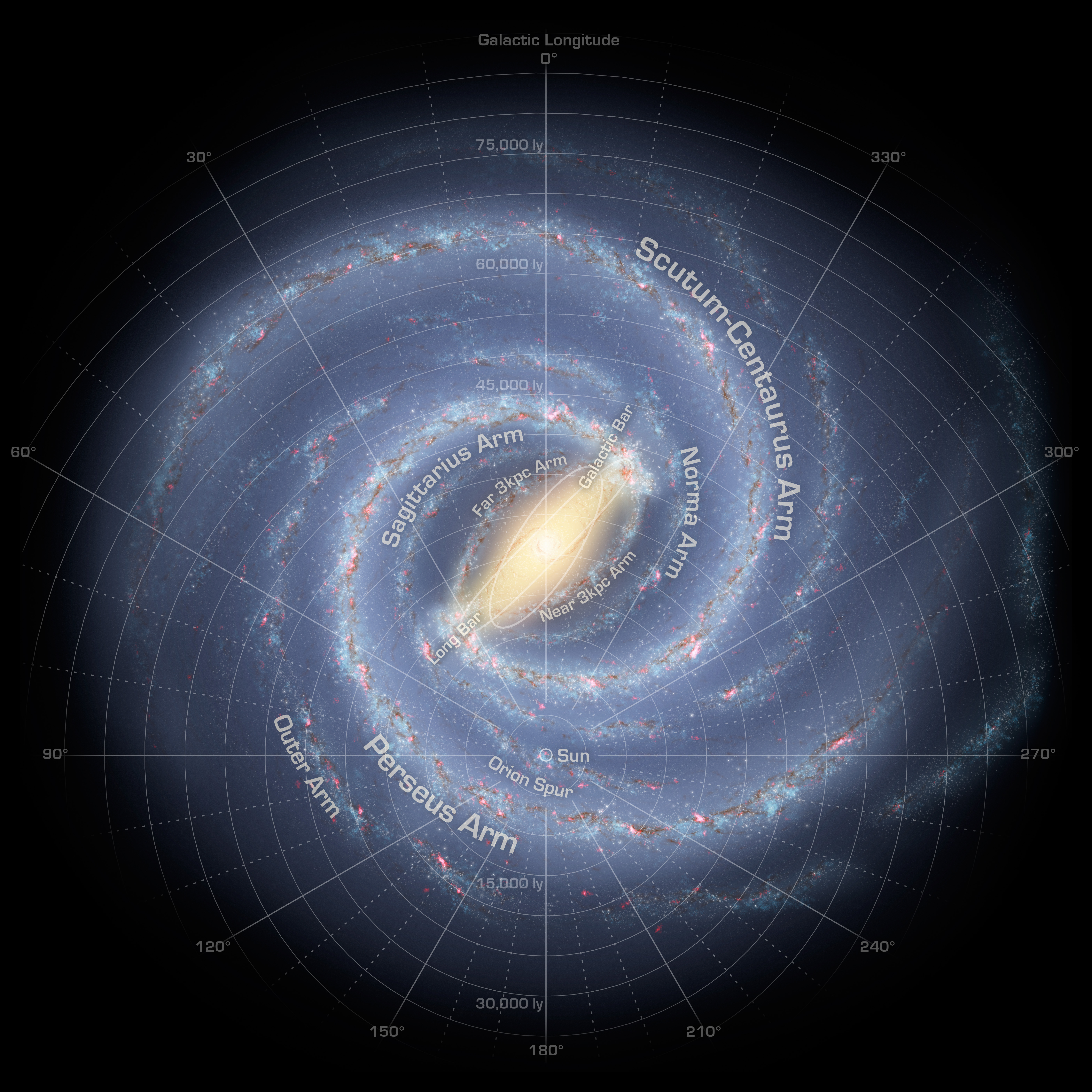 Artist's conception of the spiral structure of the Milky Way with two major stellar arms and a central bar. "Using infrared images from NASA's Spitzer Space Telescope, scientists have discovered that the Milky Way's elegant spiral structure is dominated by just two arms wrapping off the ends of a central bar of stars. Previously, our galaxy was thought to possess four major arms."